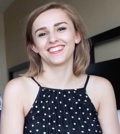 Hannah Witton on Shan BOODY's channel in 2016